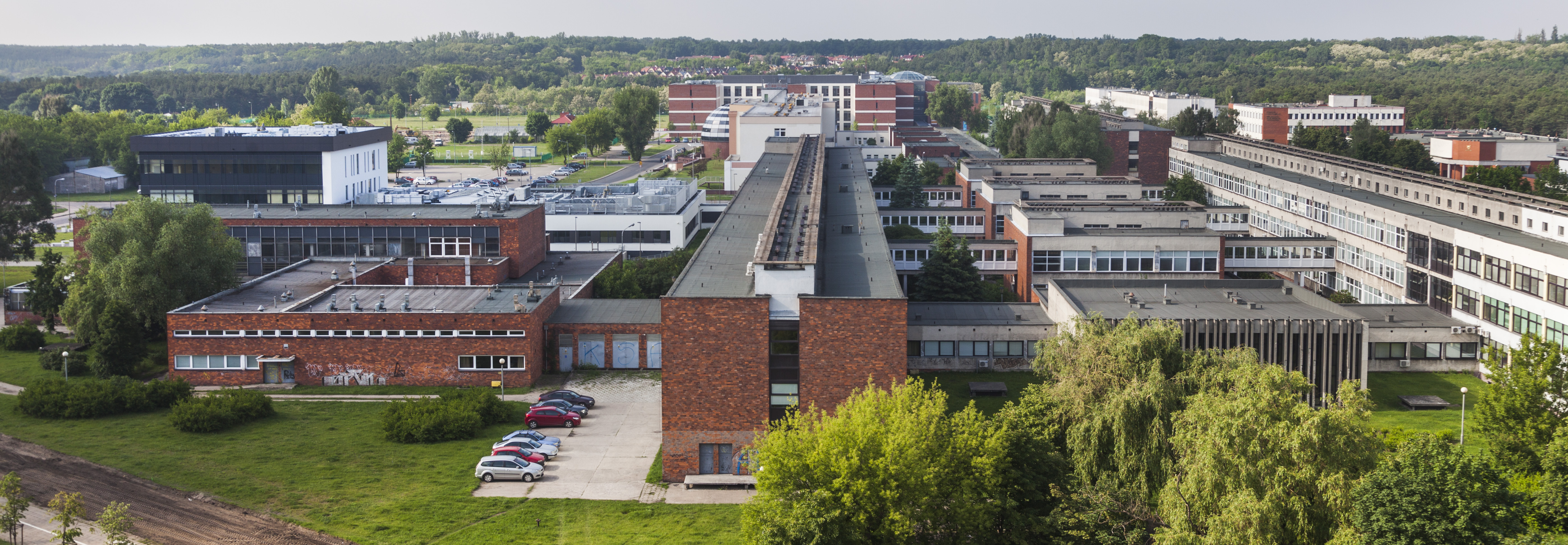 Nicolaus CoOpernicus University in Toruń